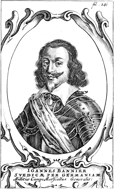 Johan Banér (1596–1641) was a Swedish soldier in the Thirty Years' War